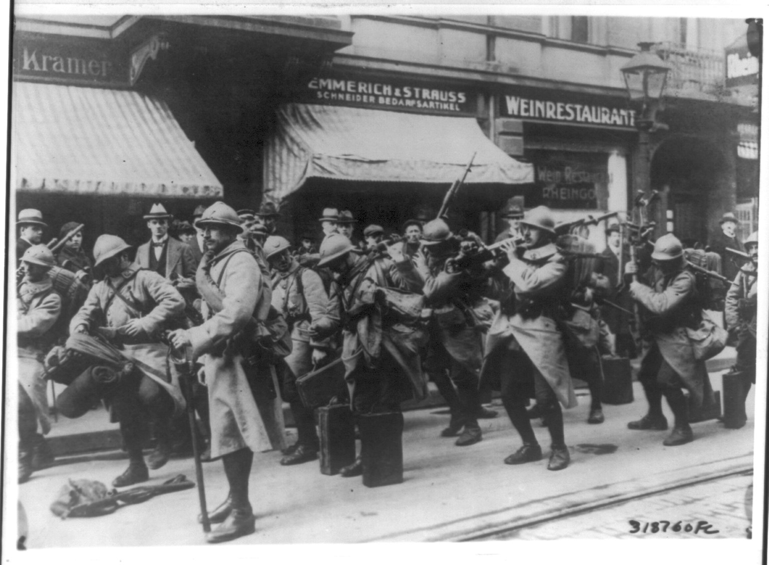 Title: French machine gun squad in Duisburg, bound for guard duty in the Ruhr coal mines Abstract/medium: 1 photographic print.